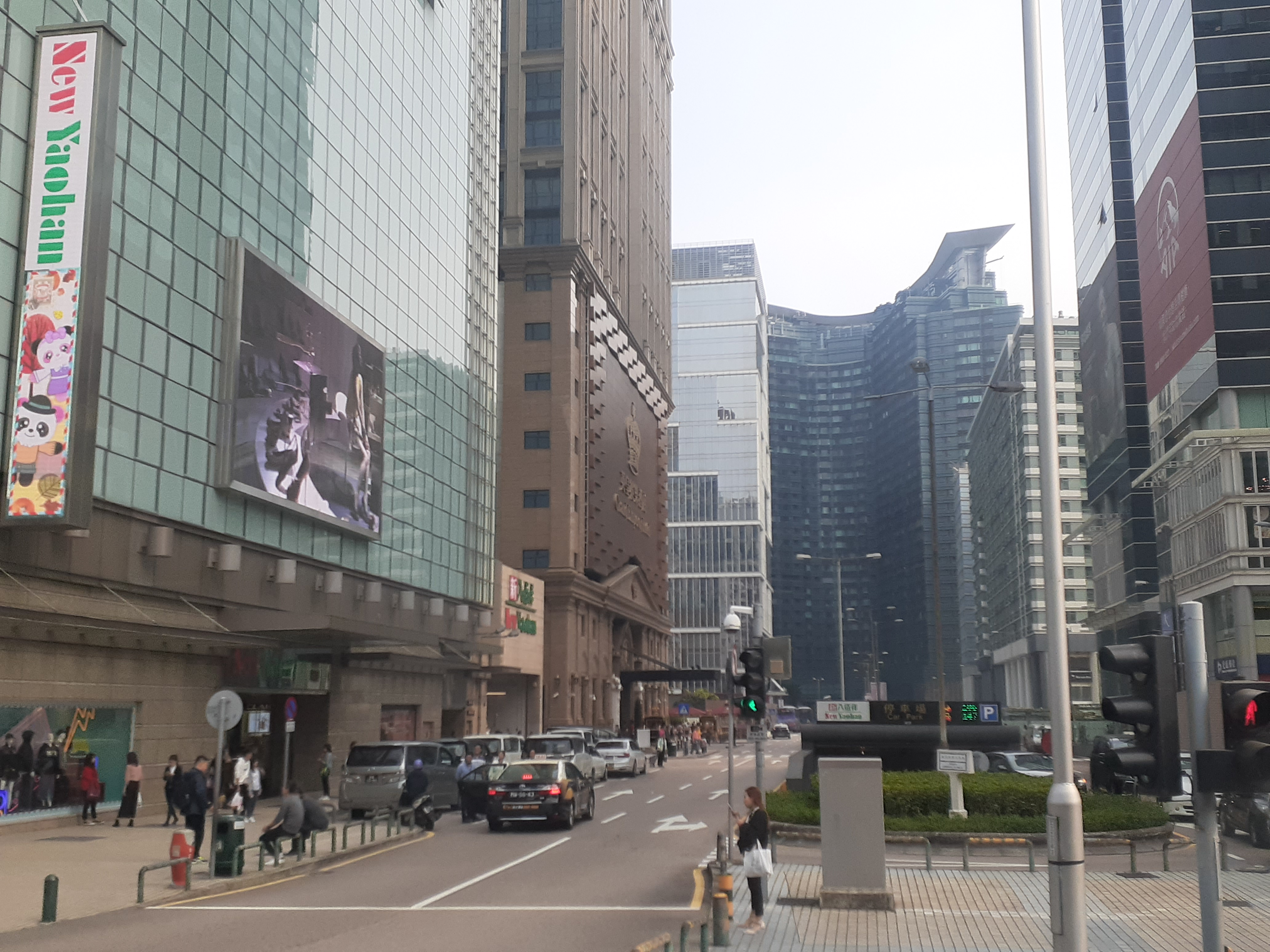 MC 澳門半島 Macau Peninsula tour view SE District 南灣湖 Lago Nam Van Lake 澳門商業大馬路 Avenida Comercial de Macau in November 2019